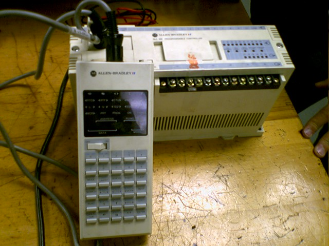 Allen Bradley programmable controllers, used for academic purposes in classes.